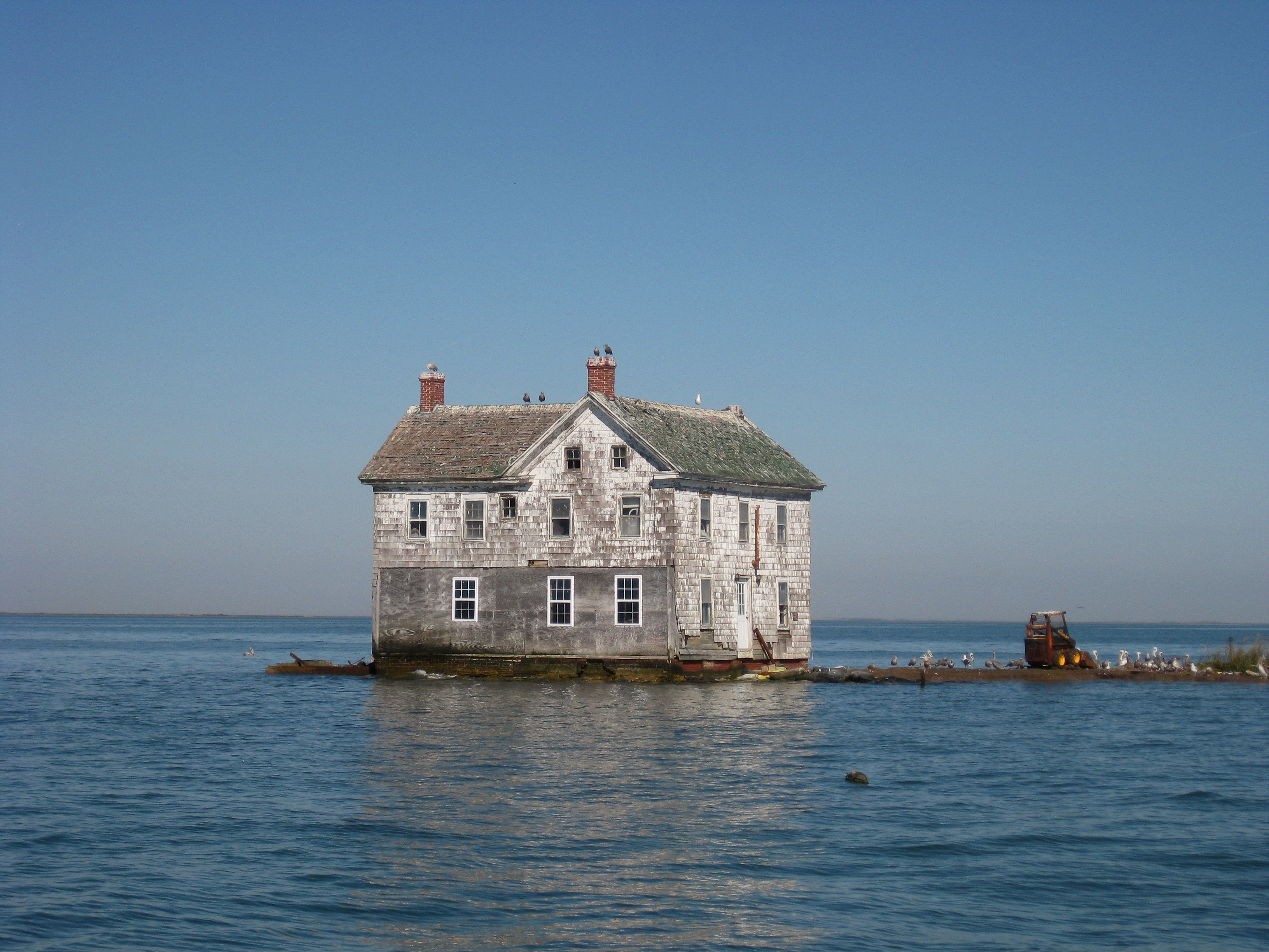 The last house on Holland Island in the Chesapeake Bay as it stood in October 2009. This house fell into the bay in October 2010.